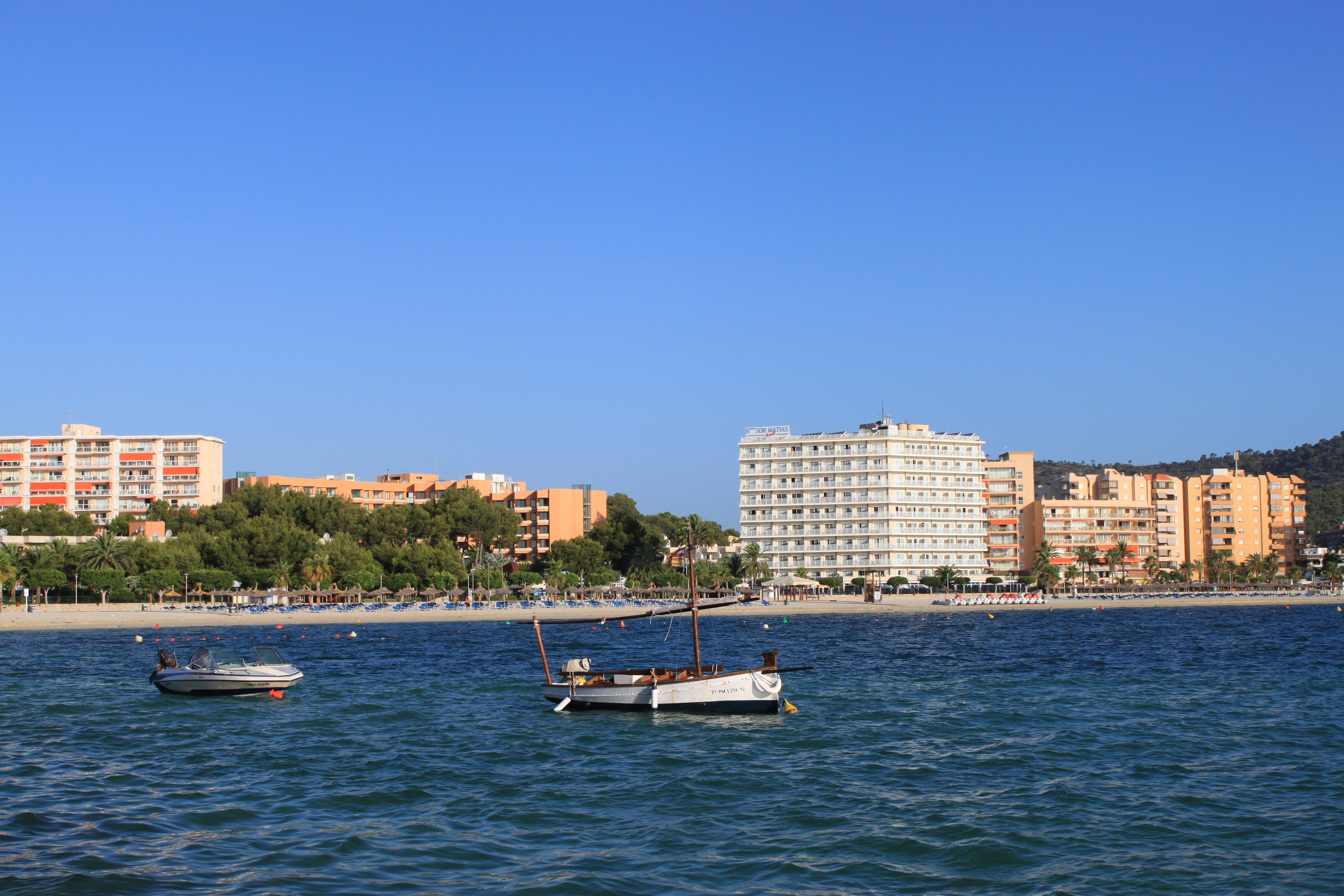 Palmanova, Mallorca, 2010